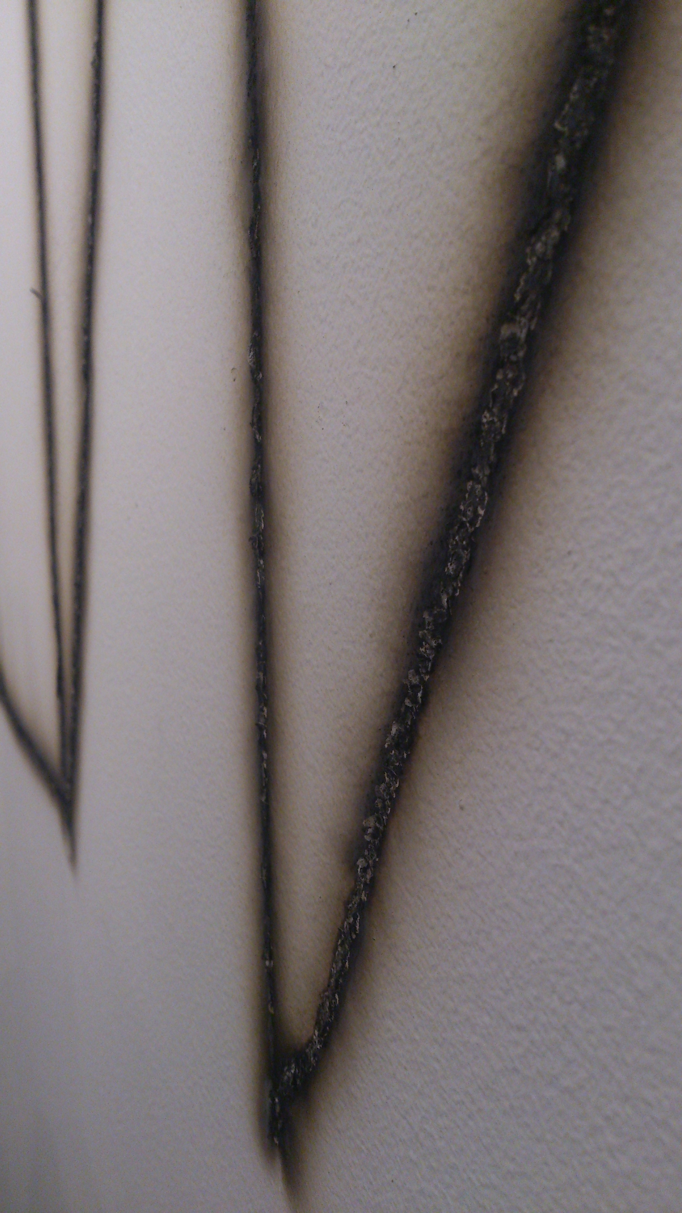 A minor detail of installation "Warsaw" by Polish artist Wilhelm Sasnal in Tartu Art Museum illustrates the technique: burning detonating fuse to leave a trace on the wall. (Purely technical details that do not show the piece of art as a whole should not be copyrighted in Europe, as far as I know. This is really a picture of the production method rather than art.) - Tehniline detail Poola kunstniku Wilhelm Sasnali installatsioonist "Warsaw" Tartu Kunstimuuseumi näitusel "Minu Poola". Installatsioon koosneb süütenööri põletamise abil seinale jäetud jäljest, mis moodustab kirja "WARSAW".